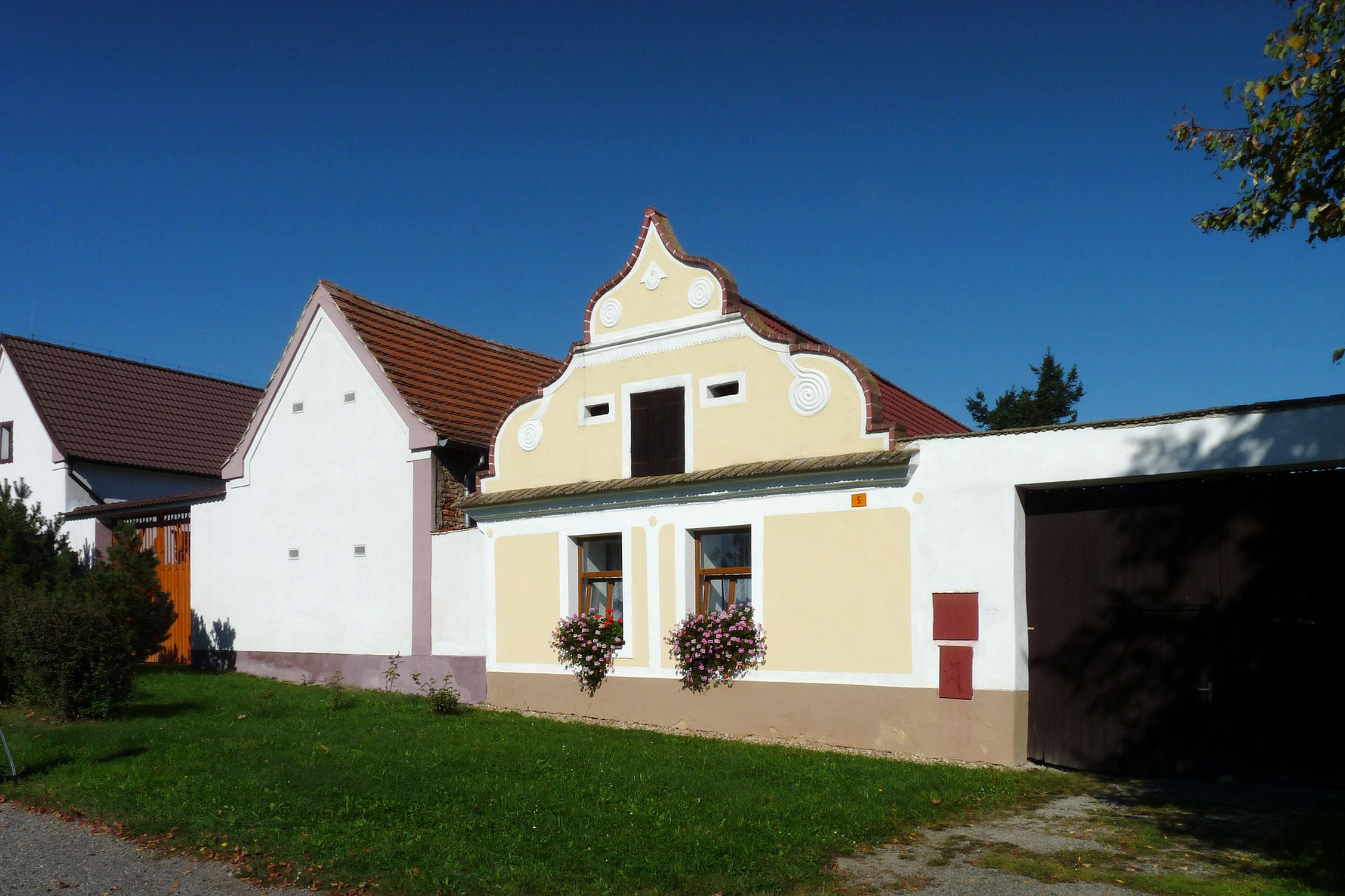 House No 5 in the village of Munice, part of the town of Hluboká nad Vltavou in České Budějovice District.